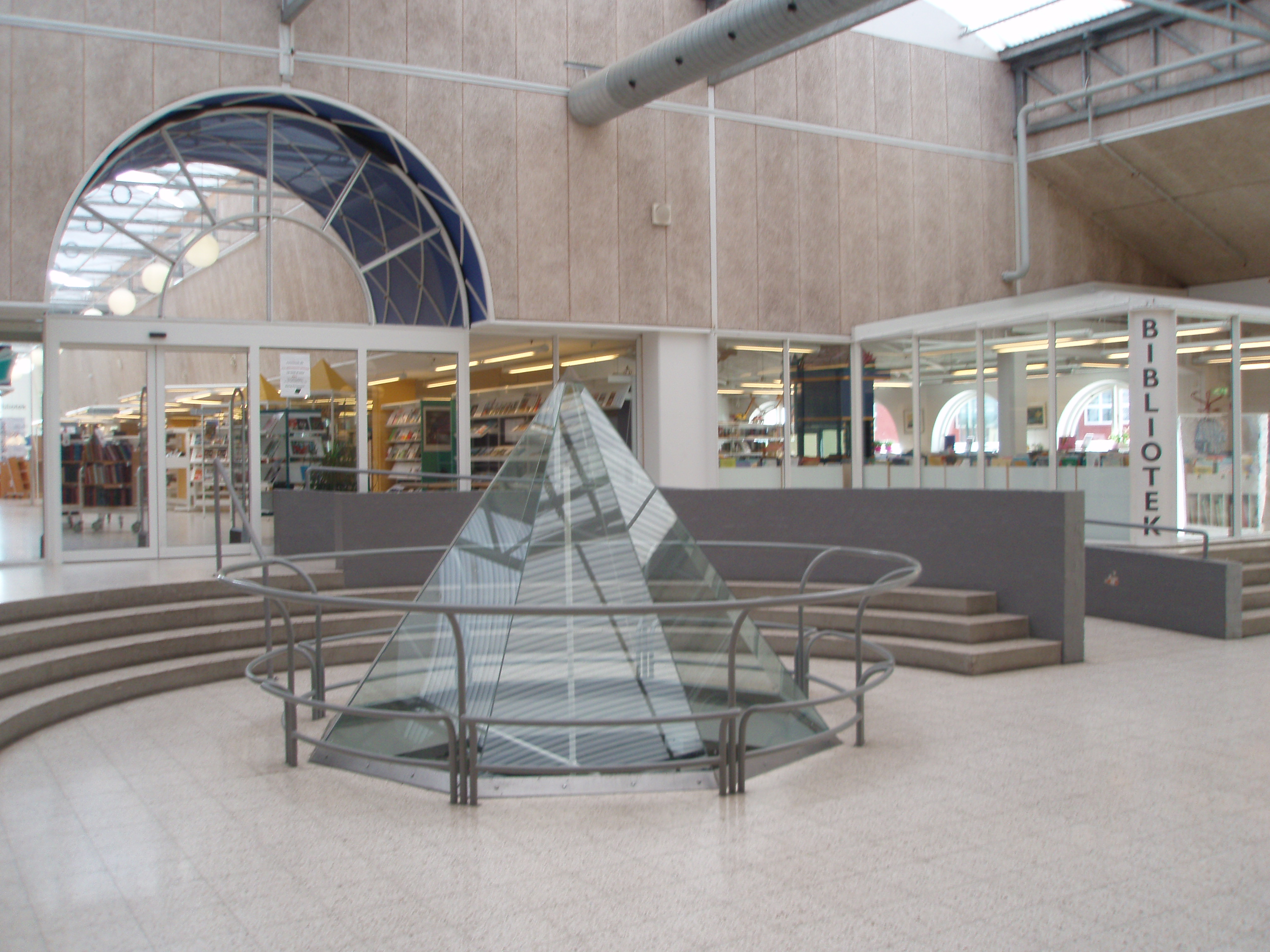 Fåborg library viewed from within the center, Herregårdscentret